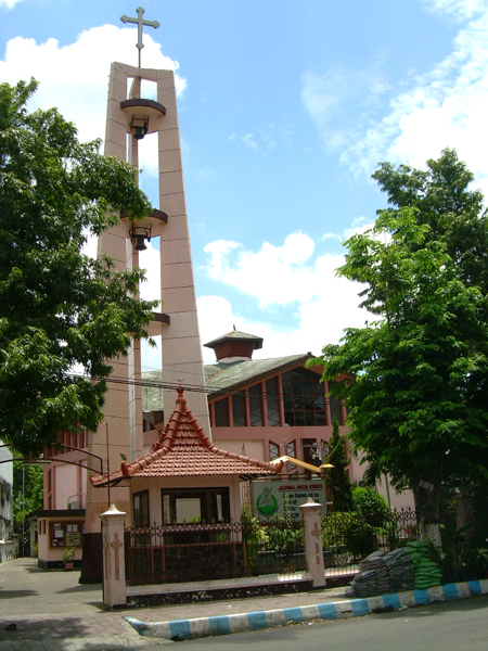 St Paul Catholic Church in Bojonegoro, East Java, Indonesia. Taken by me. (Arifhidayat 13:30, 6 February 2007 (UTC))